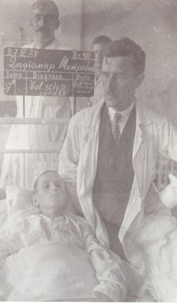 The first heart surgery in Serbia, Dr. Jovan Mijušković with the patient.